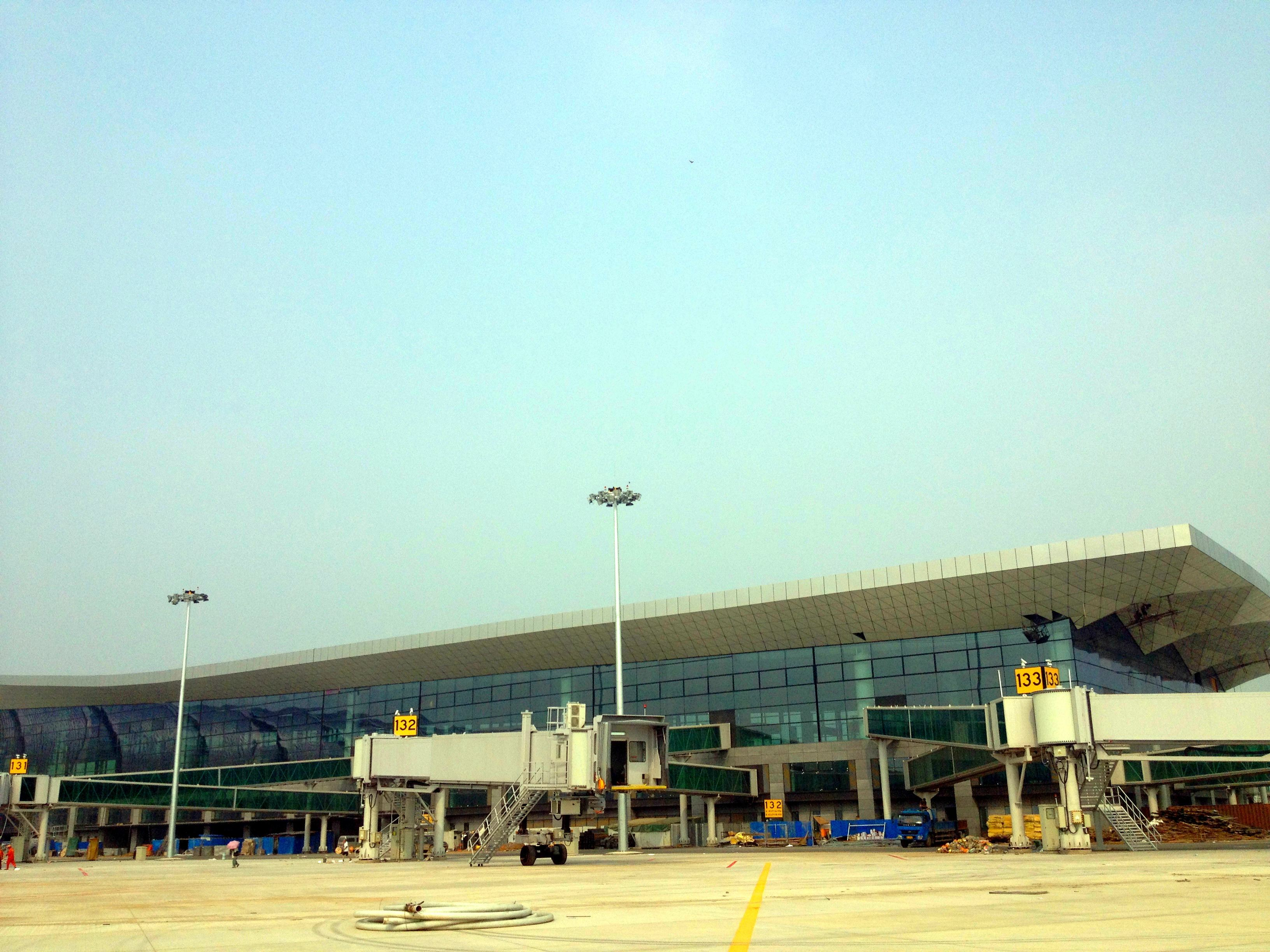 exterior of Shenyang Taoxian International Airport